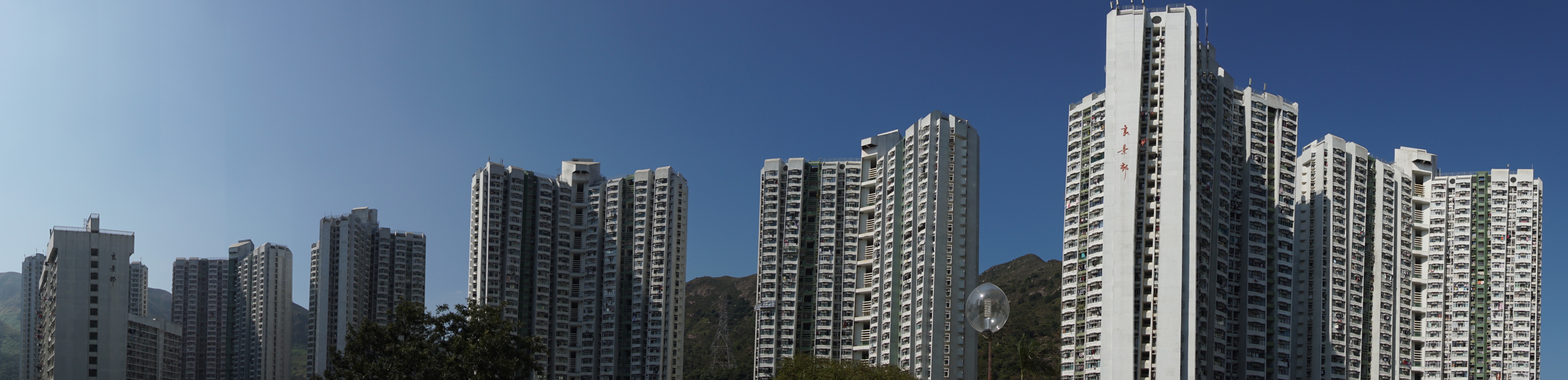 Leung King Estate in Tuen Mun, Hong Kong.